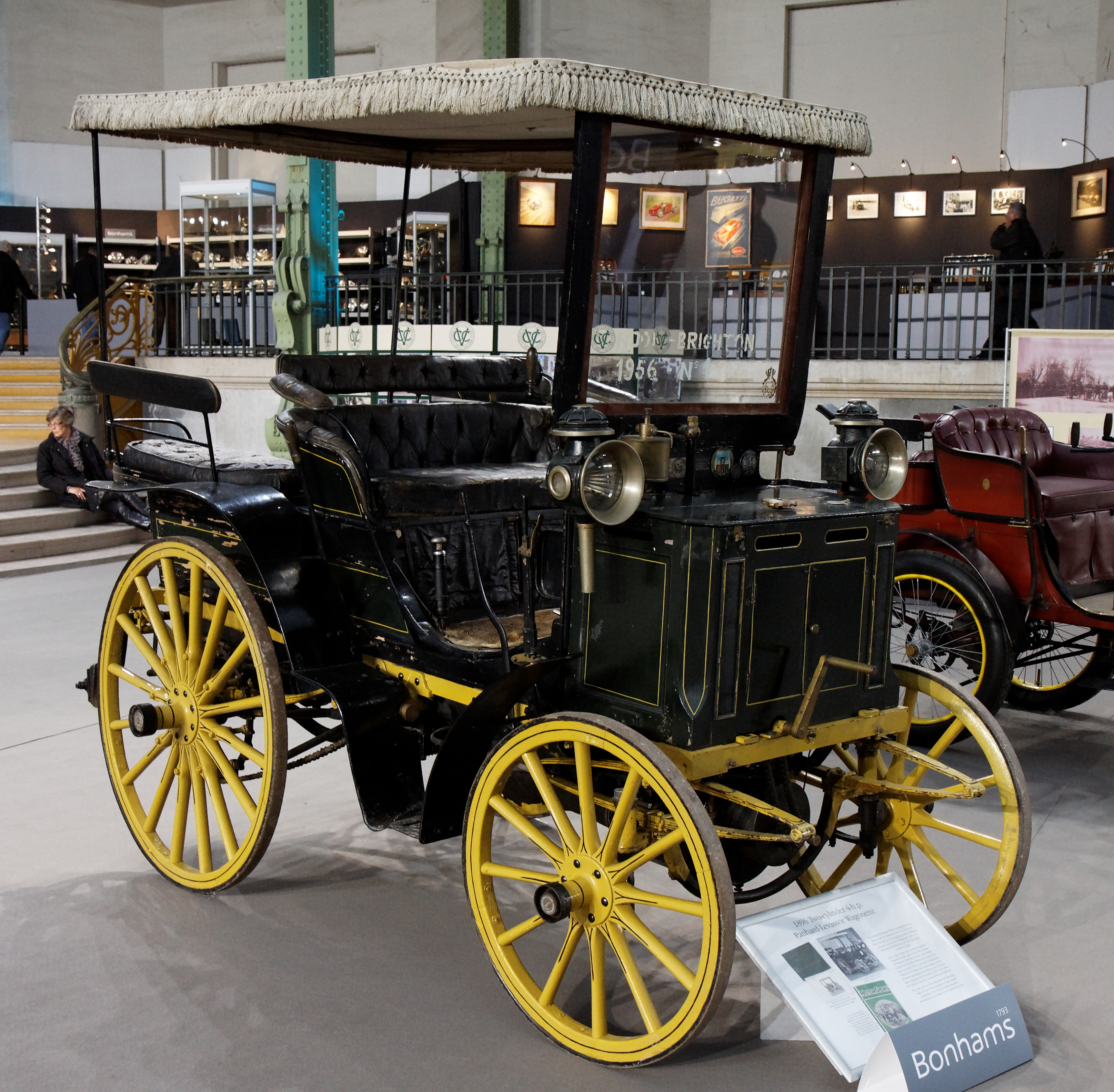 Panhard & Levassor Wagonette 2 cylindres. 4CV, chassis type A1 or A2, M2E engine of 1201cc.